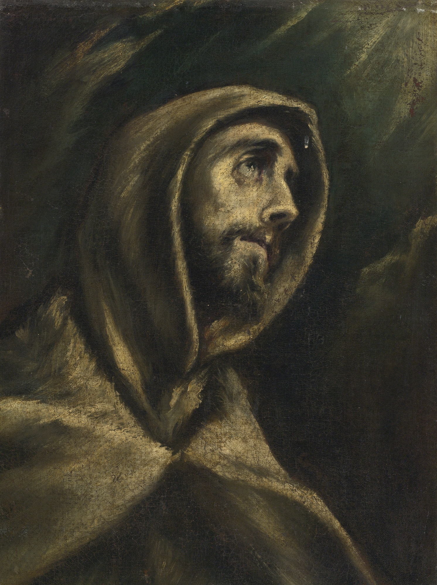 Saint Francis of Assisi